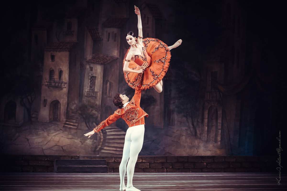 National Opera House of Ukraine_Don Quihot